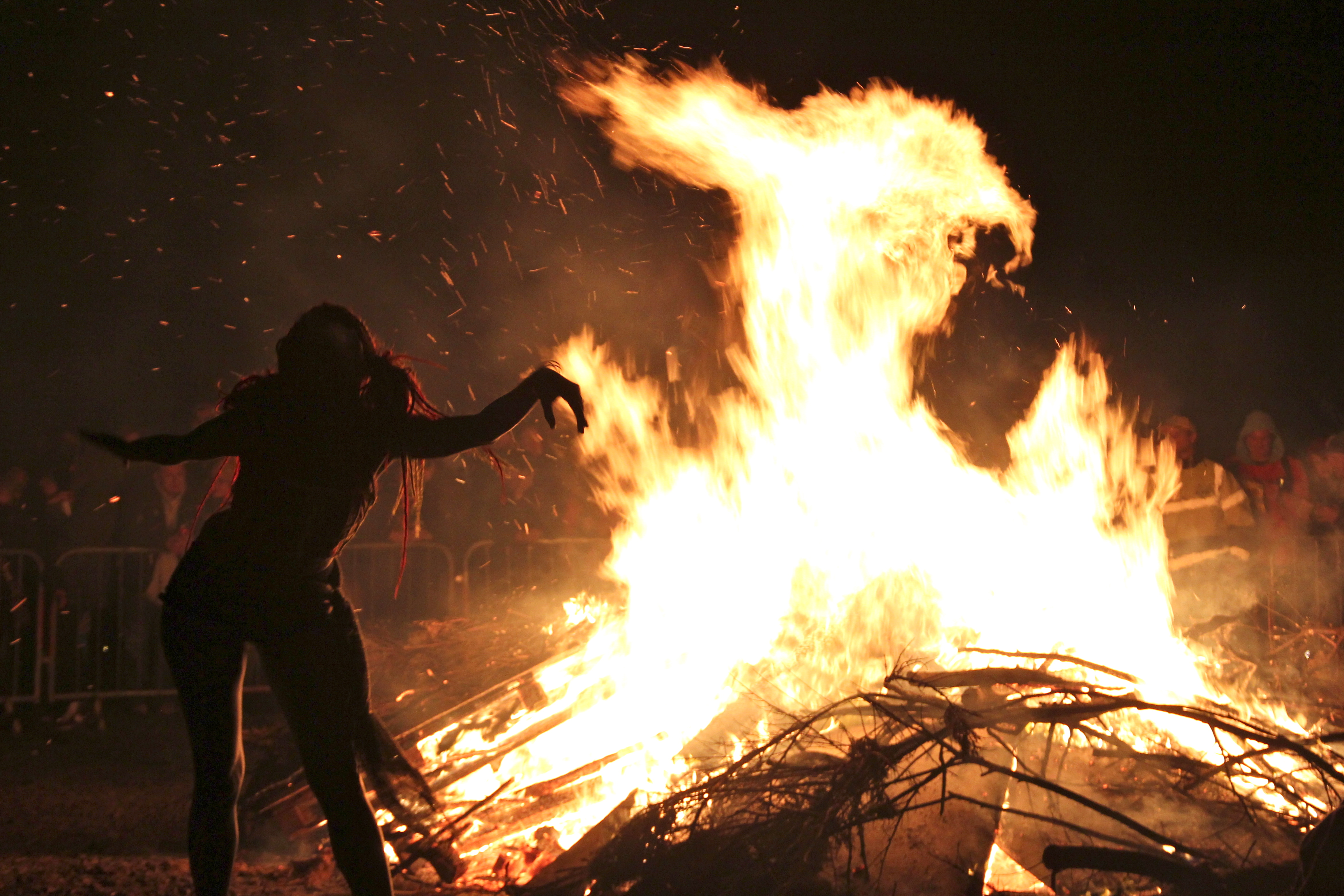 2012 Beltane Fire Festival bonfire on Calton Hill, Edinburgh, Scotland